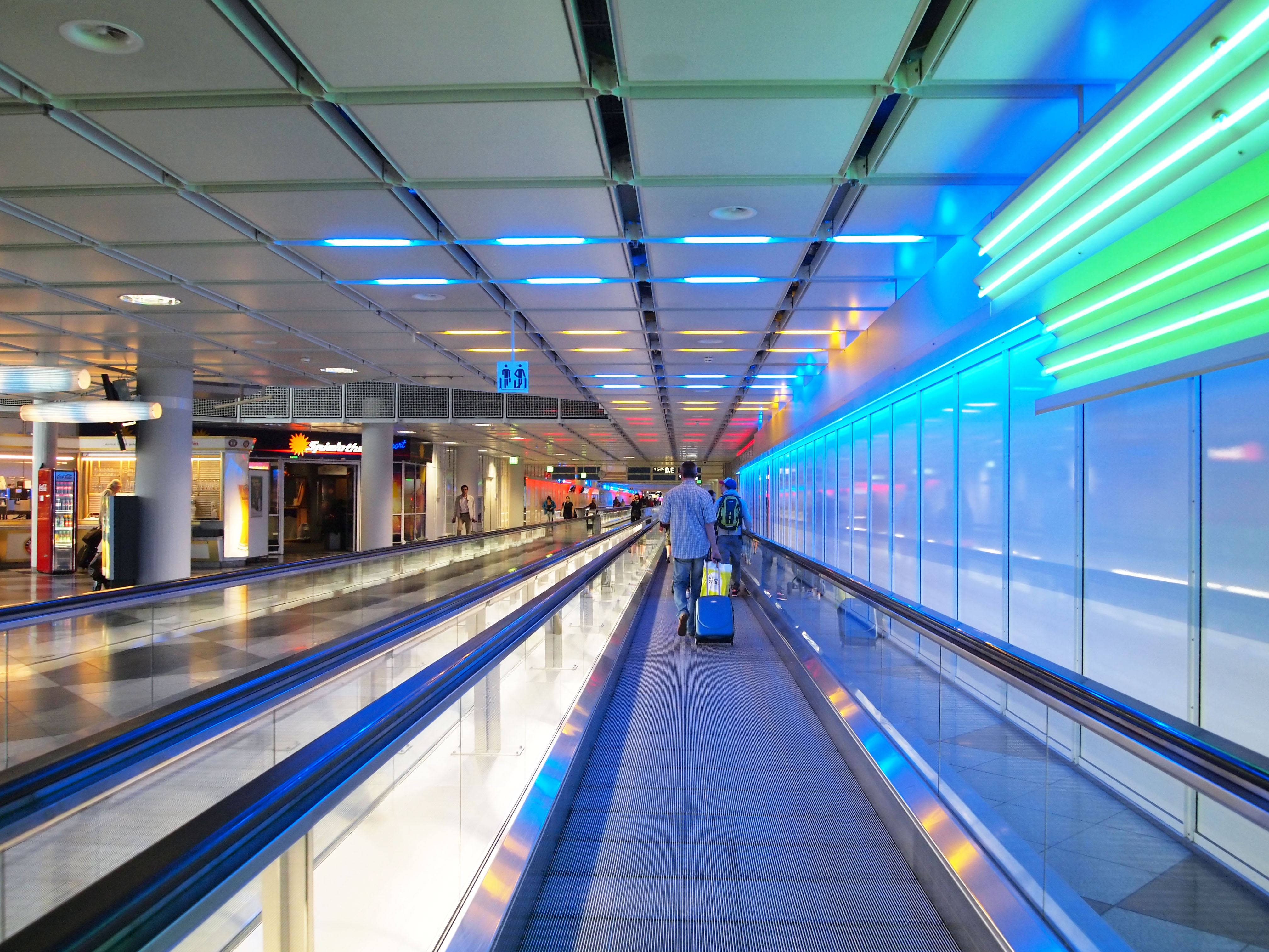 Moving walkway at the Munich Airport.This photograph was taken with an Olympus E-PL1